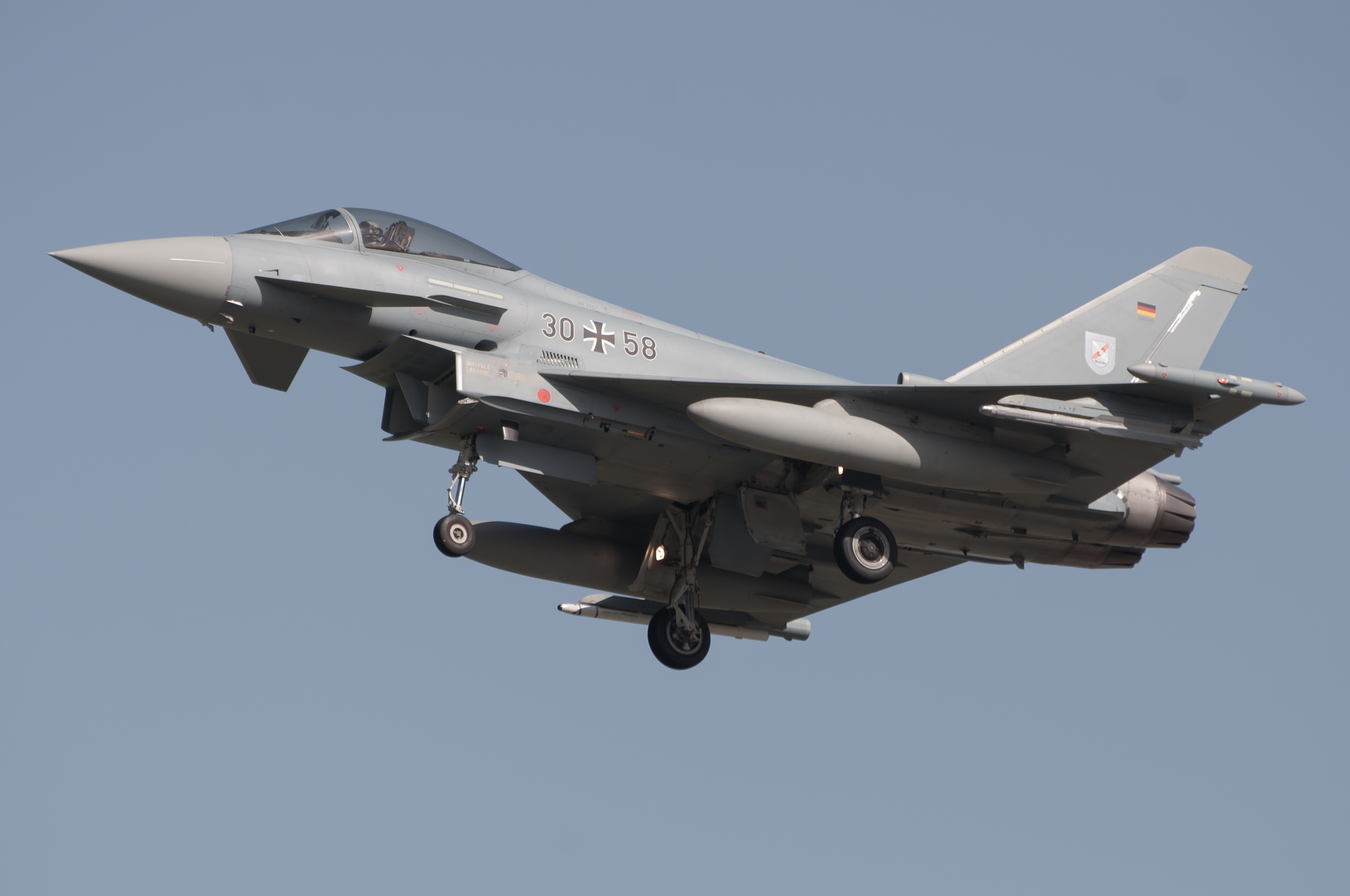 German Eurofighter EF2000 30+58